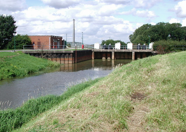 Great Culvert Pumping Station, Hull, East Riding of Yorkshire, England.The large, permanently manned Environment Agency pumping station at the junction of Holderness Drain and the Foredyke Stream drain at Bransholme, on the parish boundary between Hull North and Wawne.